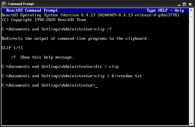 clip command on ReactOS-0.4.13